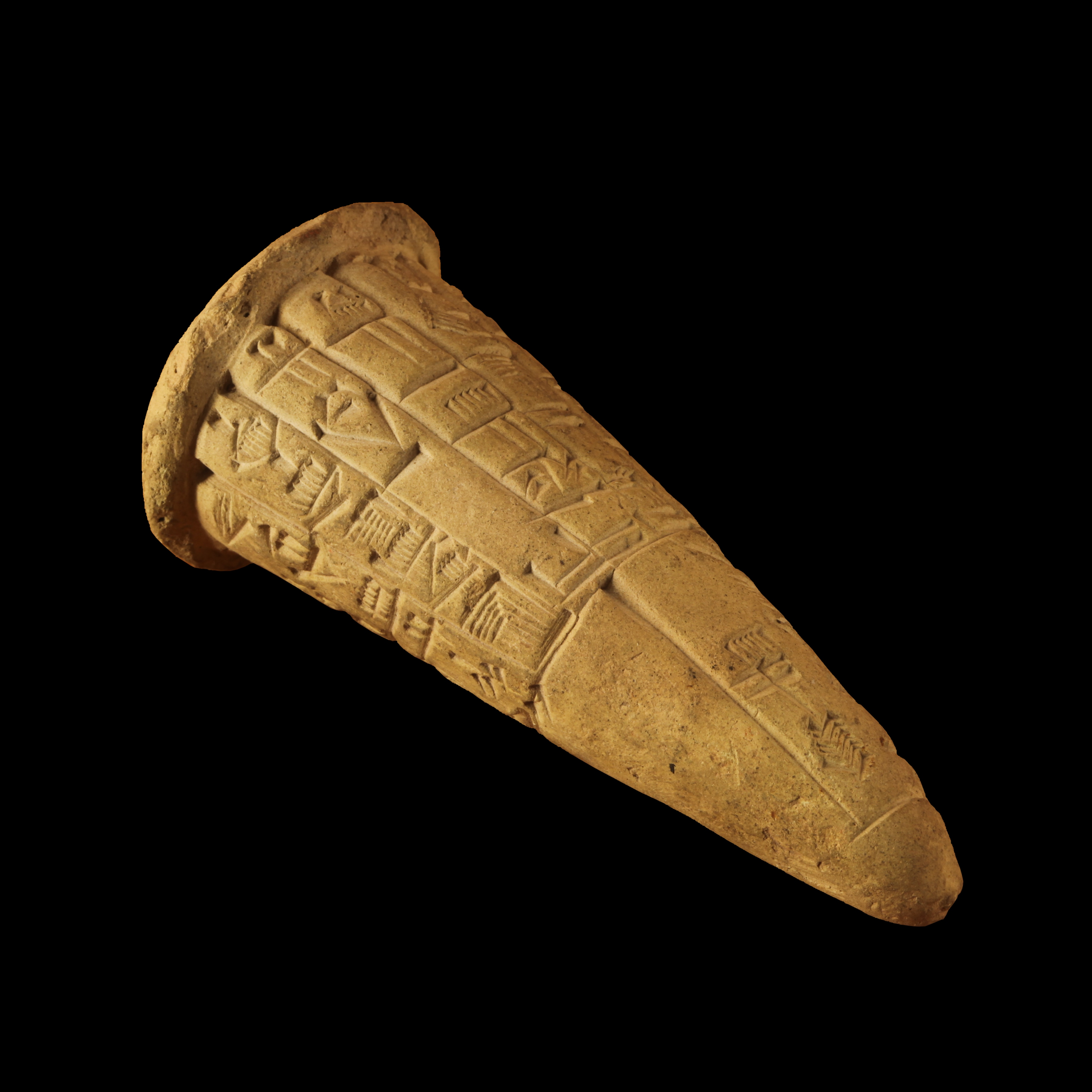 Foundation nail dedicated by Gudea to Ningirsu for the building of his temple, the E-ninnu:"For Ningirsu, the powerful hero of Enlil, his king, Gudea, prince of Lagash, accomplished what had to be; his temple of E-innu, the shining thunder-bird, he built and restored."